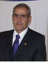 Sabas Chahuán Sarrás